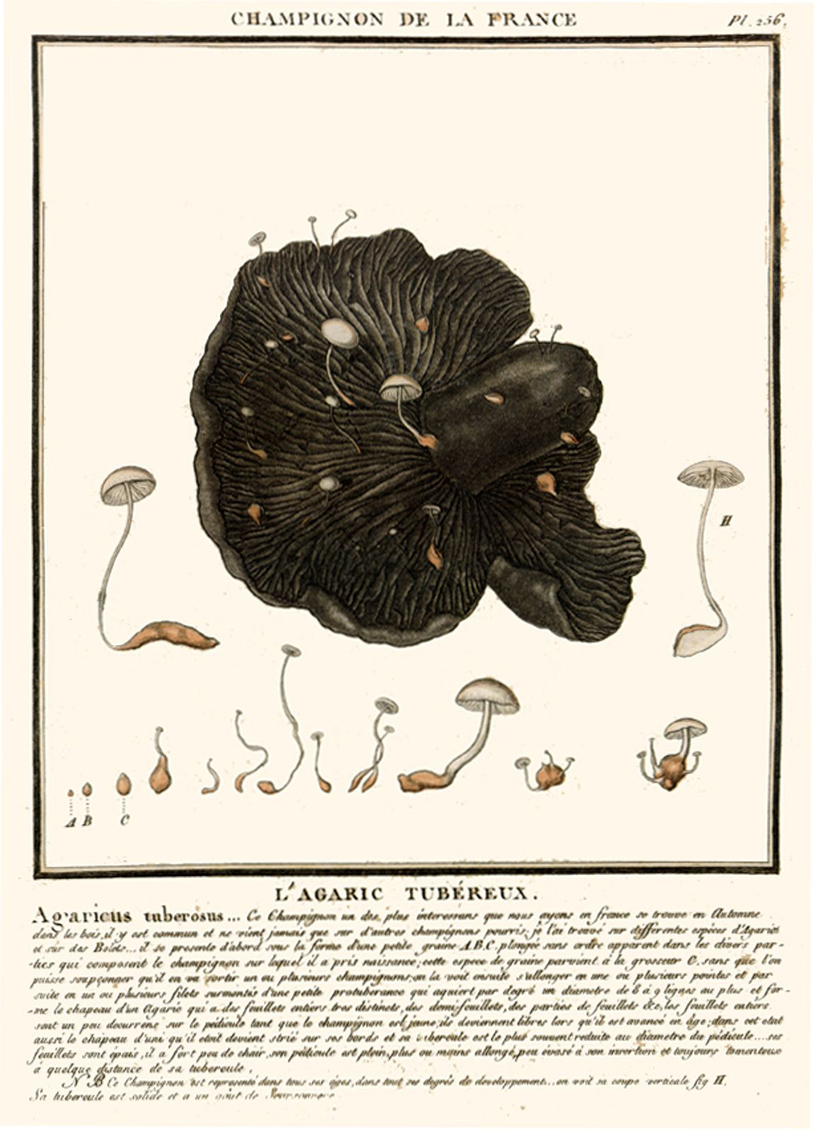 Drawing of the fungus Agaricus tuberosus Bull. 1786 , now known as Collybia tuberosa (Bull.) P.Kumm. This is the type species of the genus Collybia.